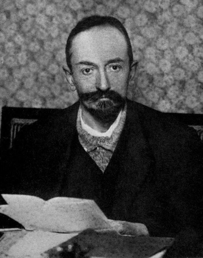 Georgy Chicherin